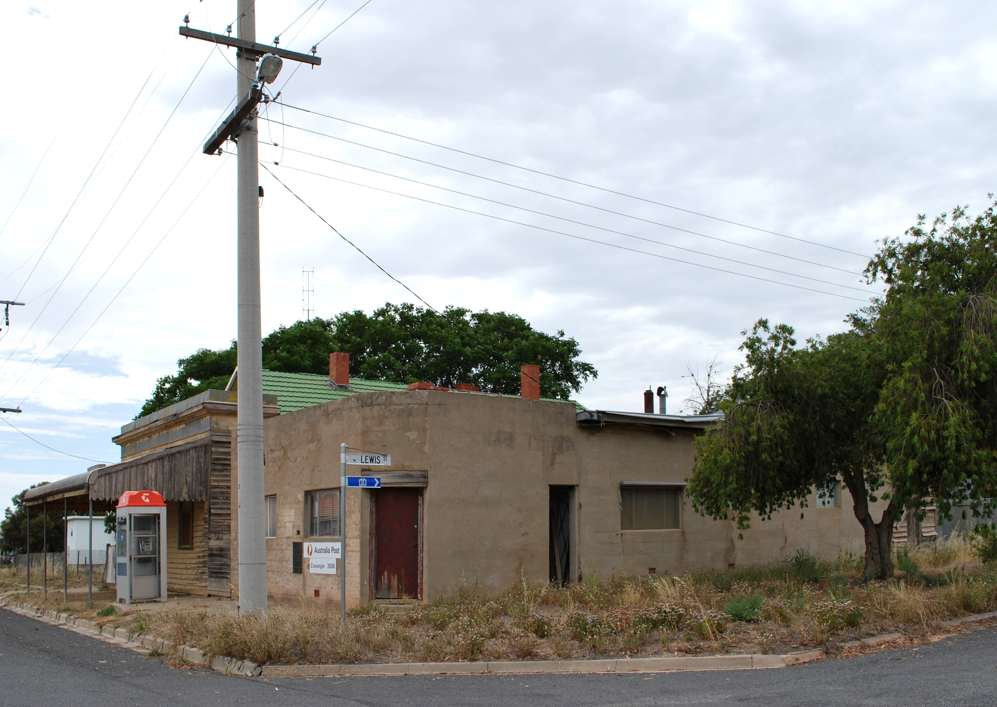 The post office at Cowangie, Victoria, now seemingly closed.